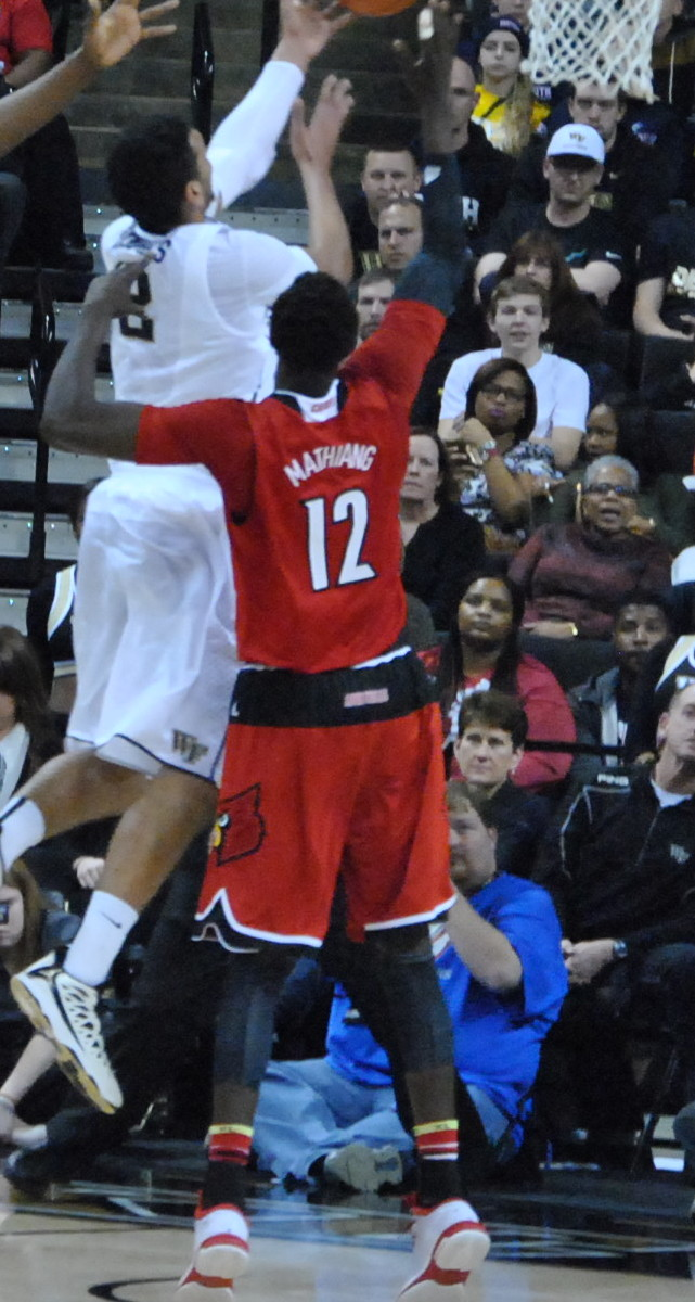 Devin Thomas goes to the basket against the Louisville Cardinals